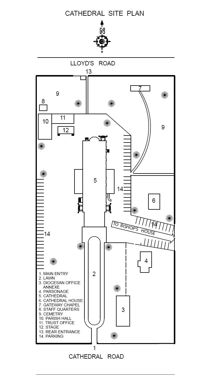 St. George's Cathedral, Chennai